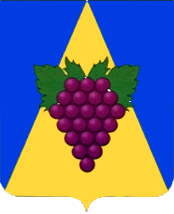 Coat of arms of Ajtanizovskaya, Krasnodar Krai, Russia